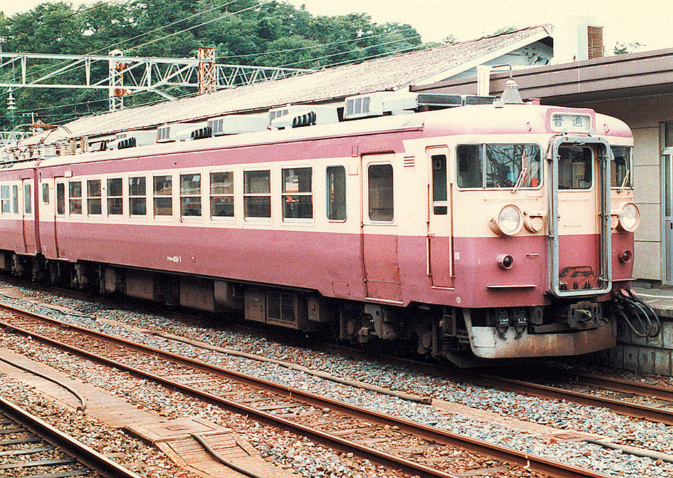 JNR 451 series EMU car KuMoHa 451-7